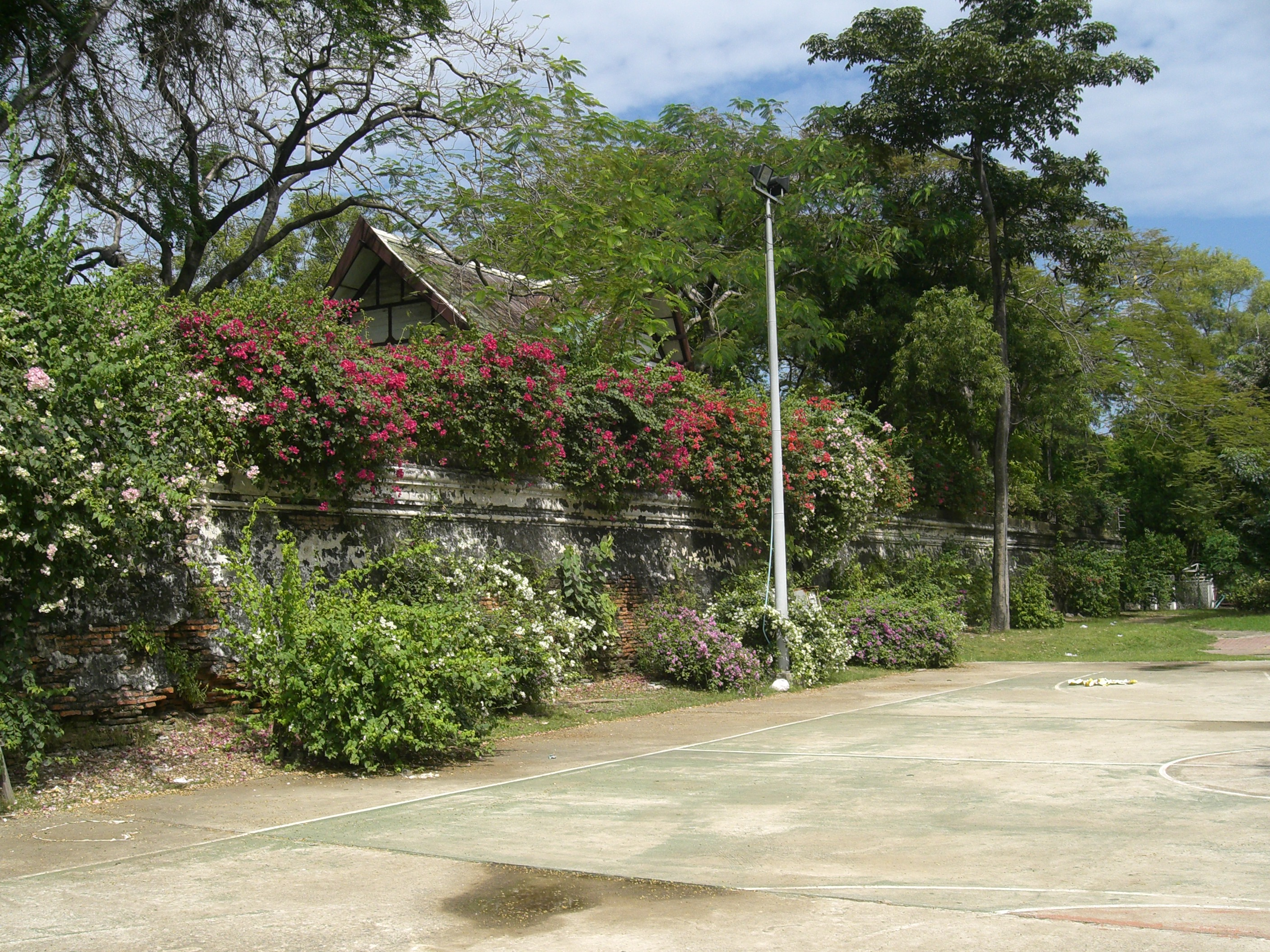 Fort Pom Phlaeng Faifa in Phra Pradaeng, Thailand